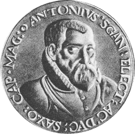 Antonius Scandellus engraved on a medal by Tobias Wolff Diameter: 30 mm (1.18 in) dimensions QS:P2386,30U174789